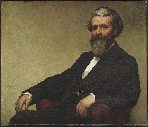 "Judge John Lowell," oil on canvas, by the American artist William Morris Hunt. Harvard University Portrait Collection, gift of the estate of Ralph Lowell. Courtesy of the President and Fellows of Harvard College.